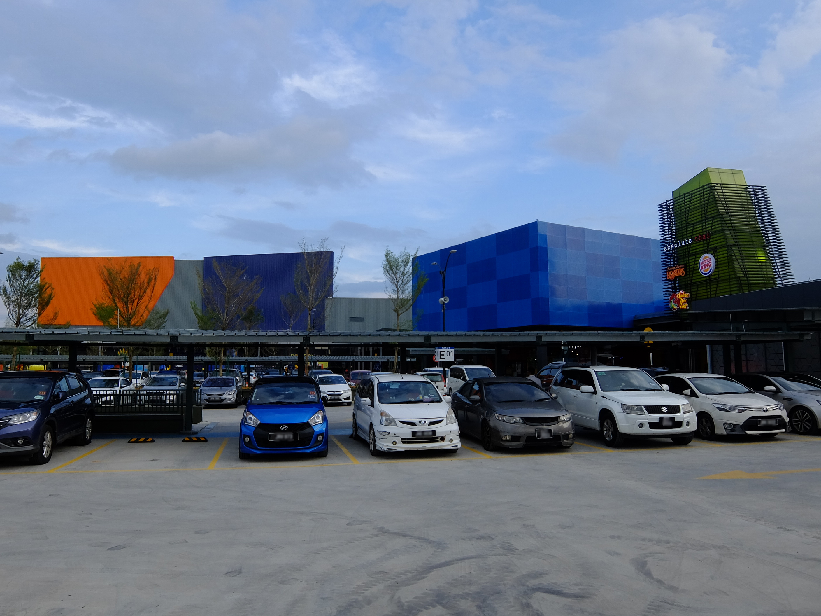 Sunway Big Box, Sunway Iskandar, Iskandar Puteri, Johor Bahru, Johor, Malaysia